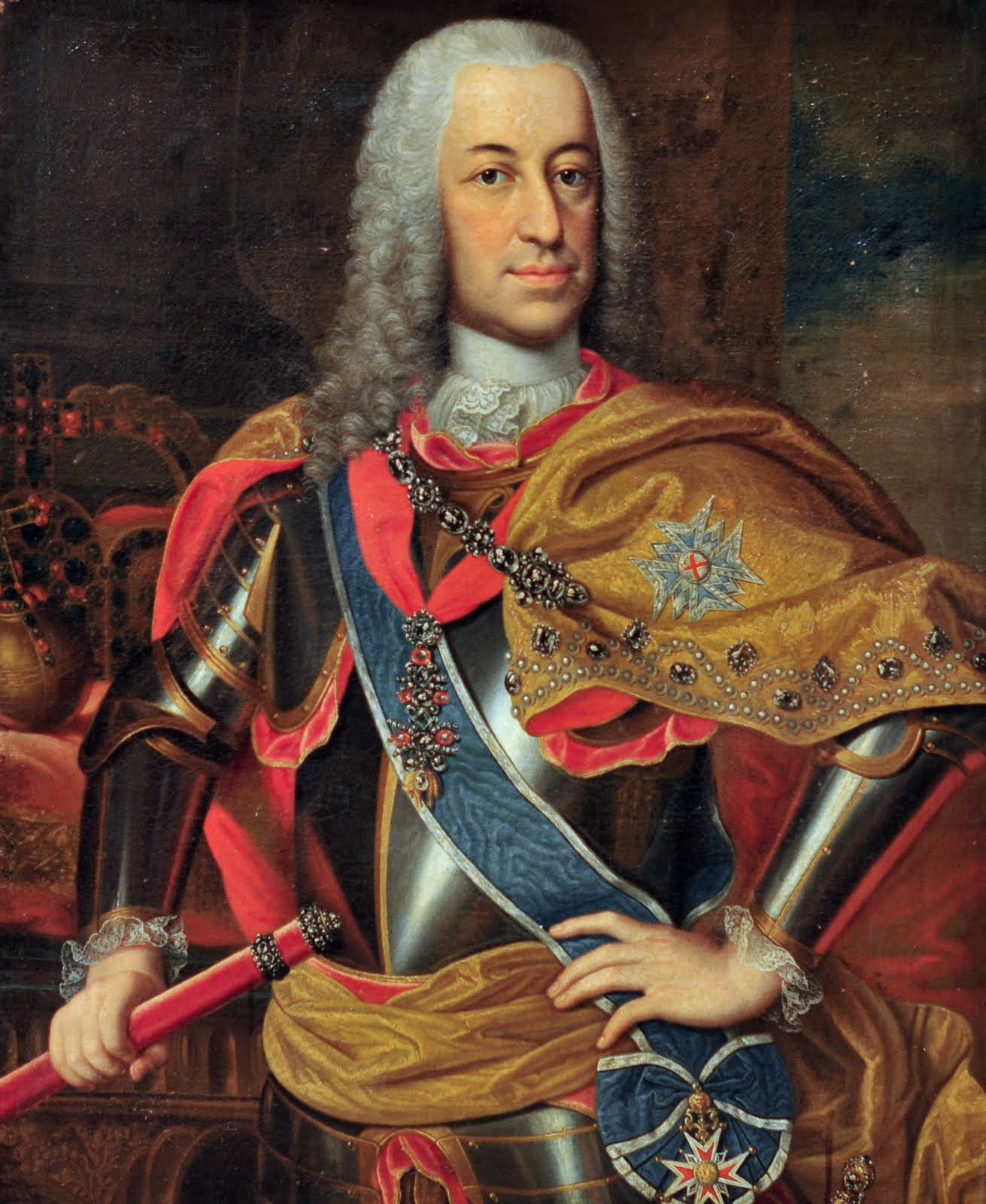 Portrait of Charles VII, Holy Roman Emperor (1697-1745)